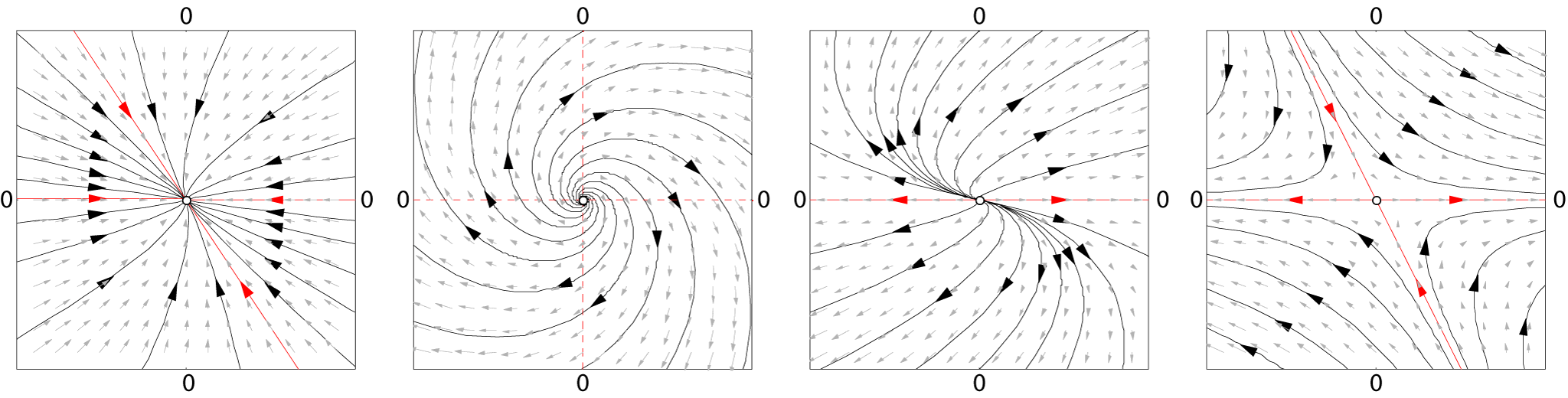 Different linear vector fields. Created with Mathematica and Illustrator.